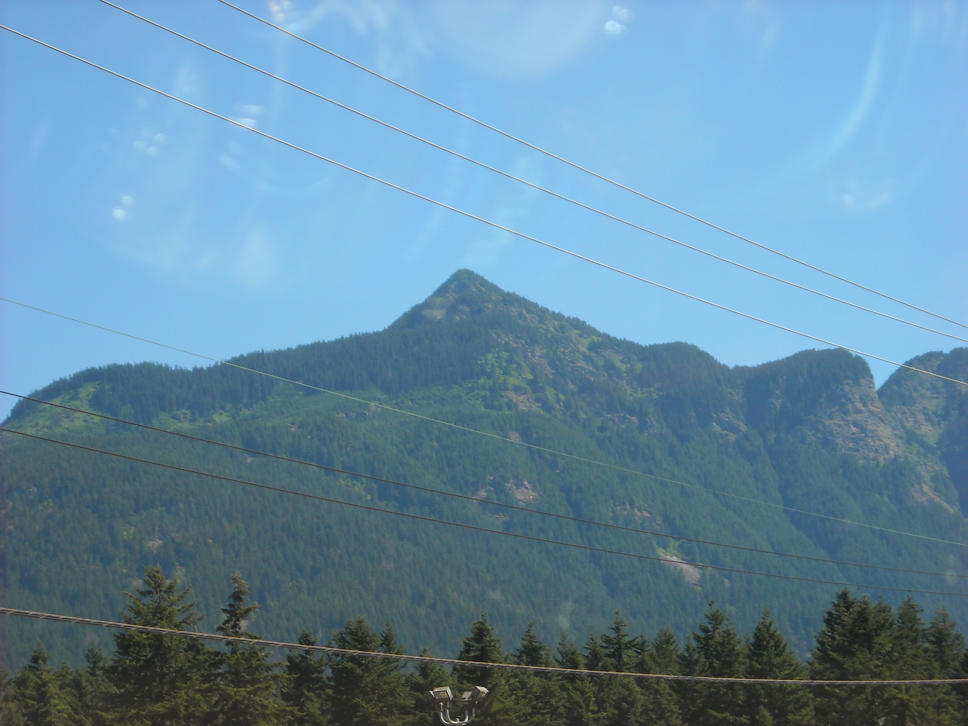 Ogilvie Peak from Old Hope Princeton Way in Hope. The mountain rises some 5900 feet above Kawkawa Lake.